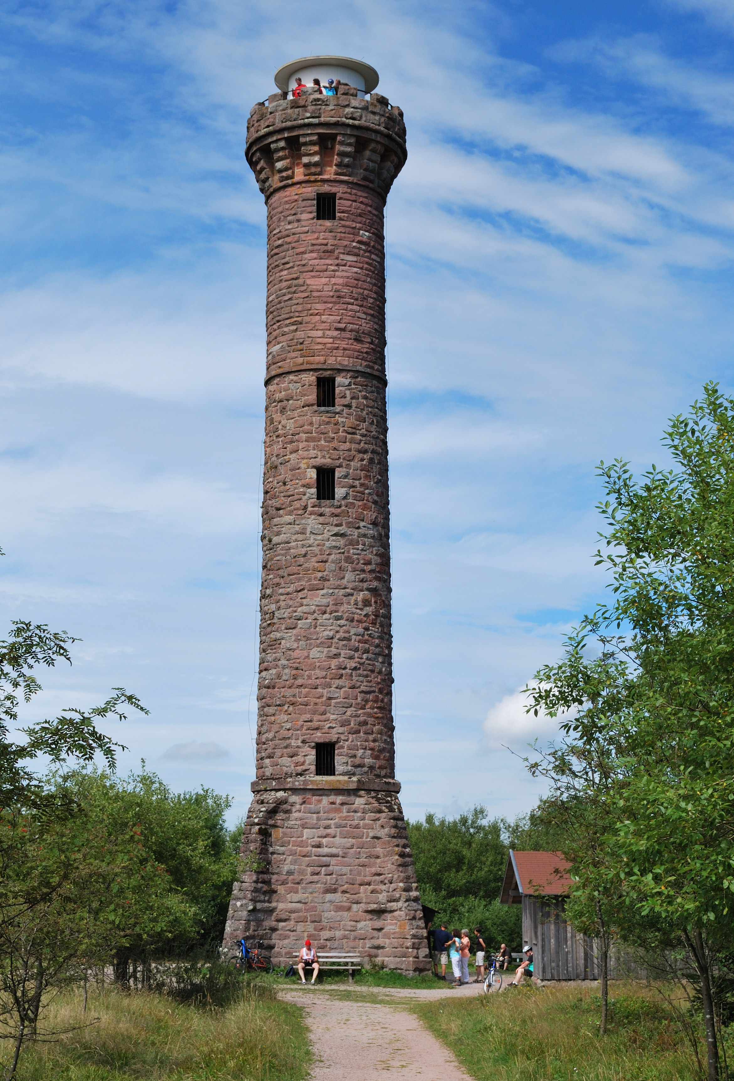 The Kaiser-Wilhelm-Turm on the Hohloh west of Kaltenbronn in northern Black Forest in Germany.